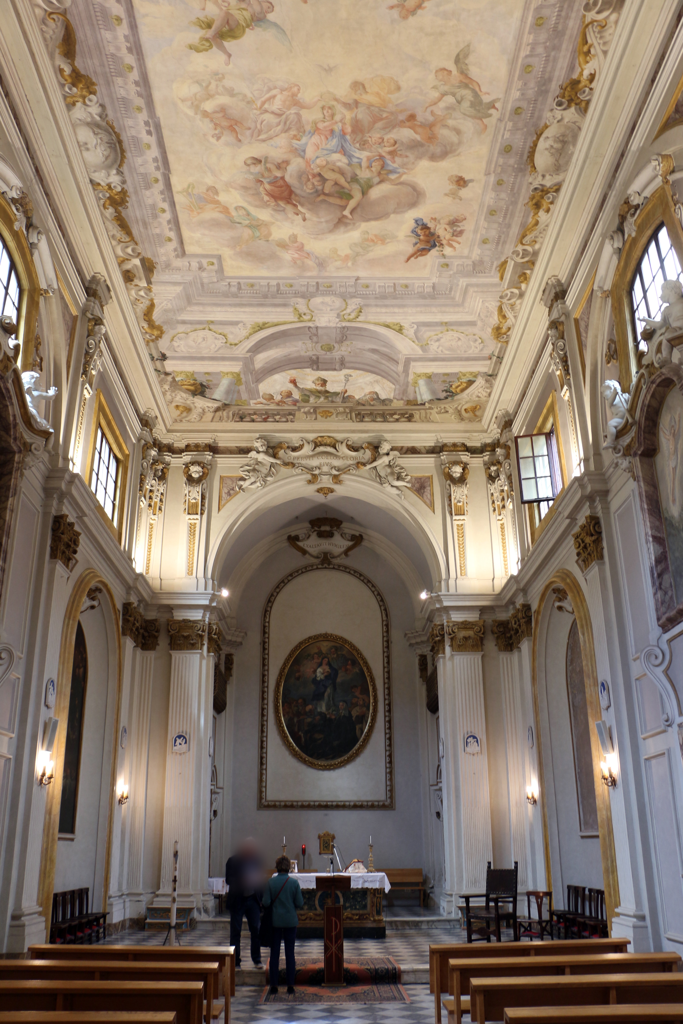 Santa Maria a Candeli - Interior